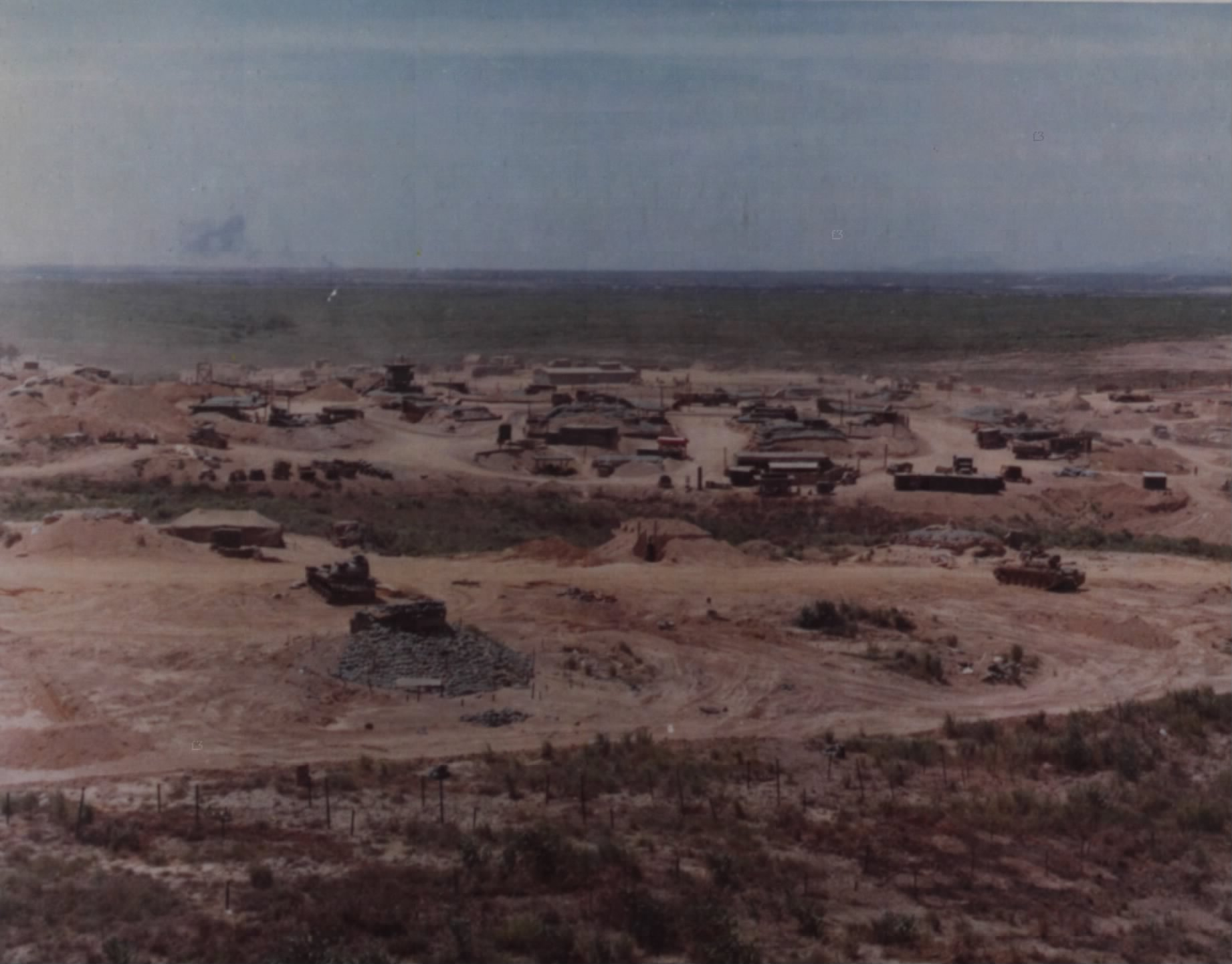 Construction of underground bunkers. Aerial view of Fire Support Base "C-2."